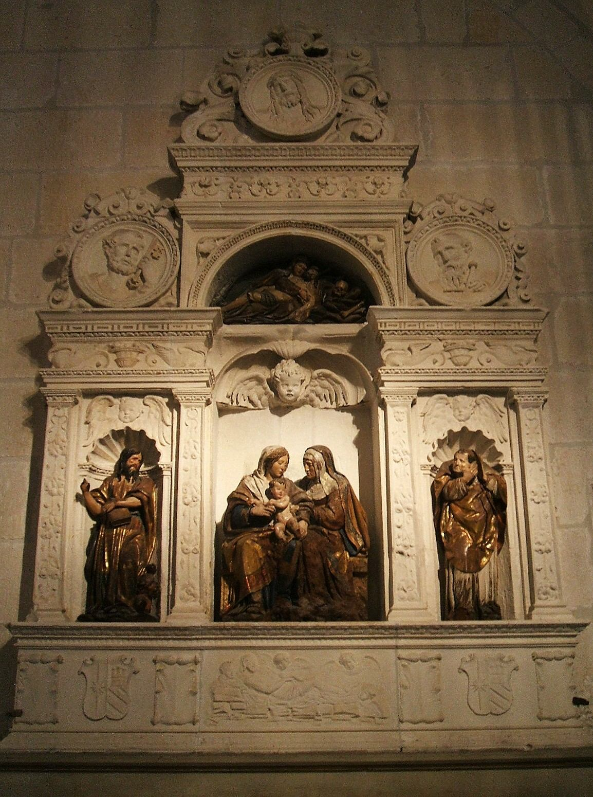 Retablo de Santa Ana, obra renacentista-plateresca (s-XVI) de Diego de Siloé, en la Capilla homónima de la Catedral de Burgos, España